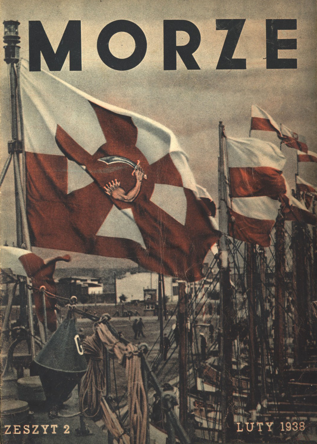 Cover of the "Morze" magazine (February 1936, issue 2): the view of the foredeck of polish destroyer ORP Grom, with the pennant of the Polish Navy